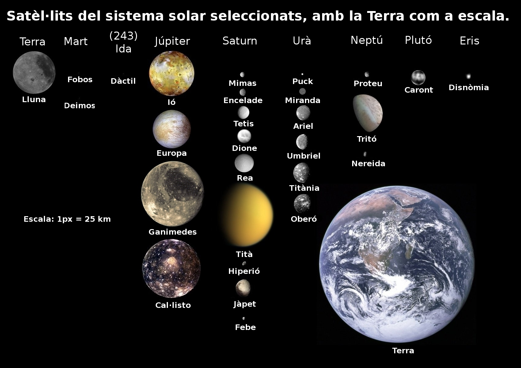 Moons of solar system scaled to Earth's Moon